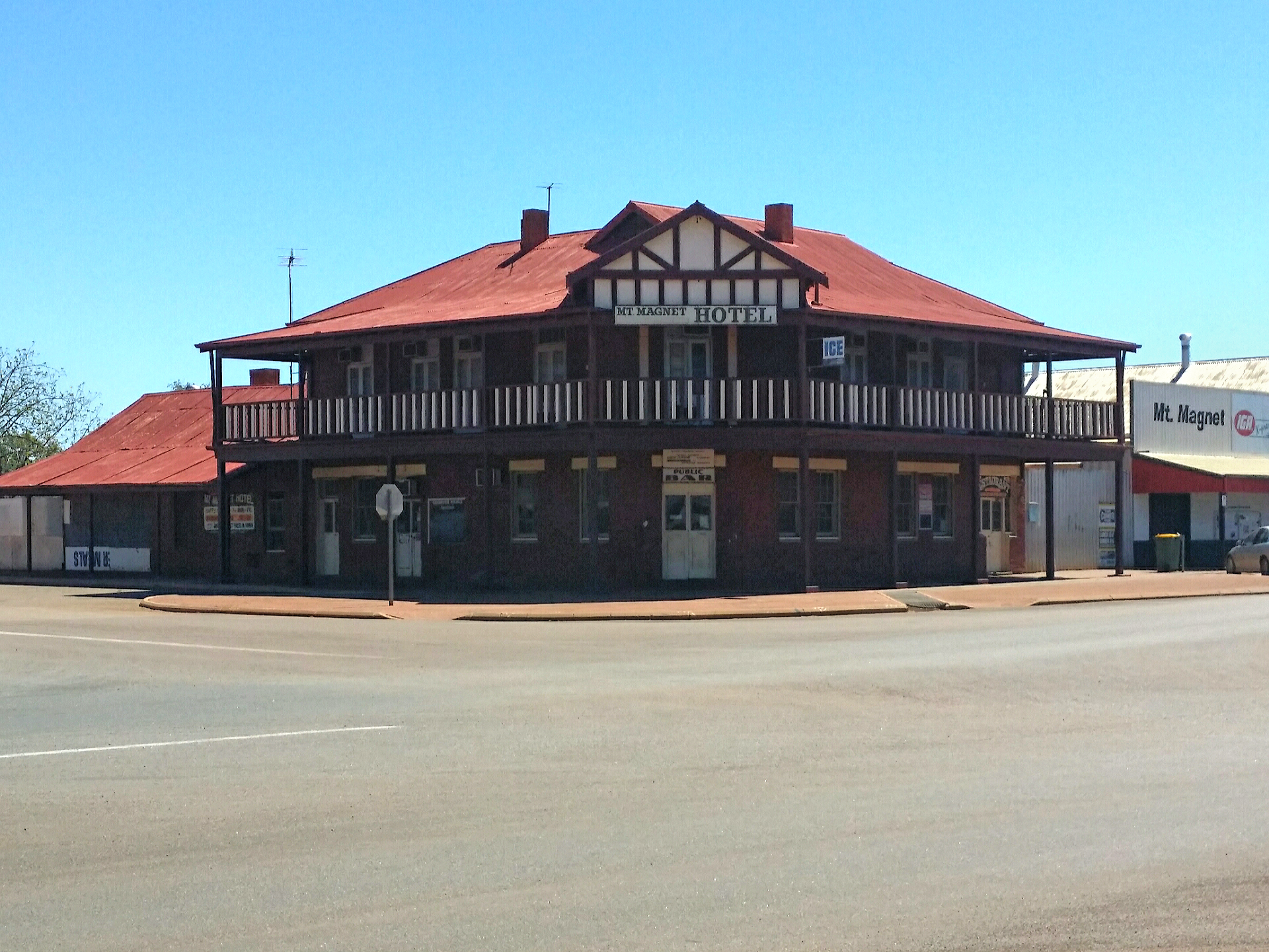 Mount Magnet Hotel, Cnr Hepburn & Richardson Sts